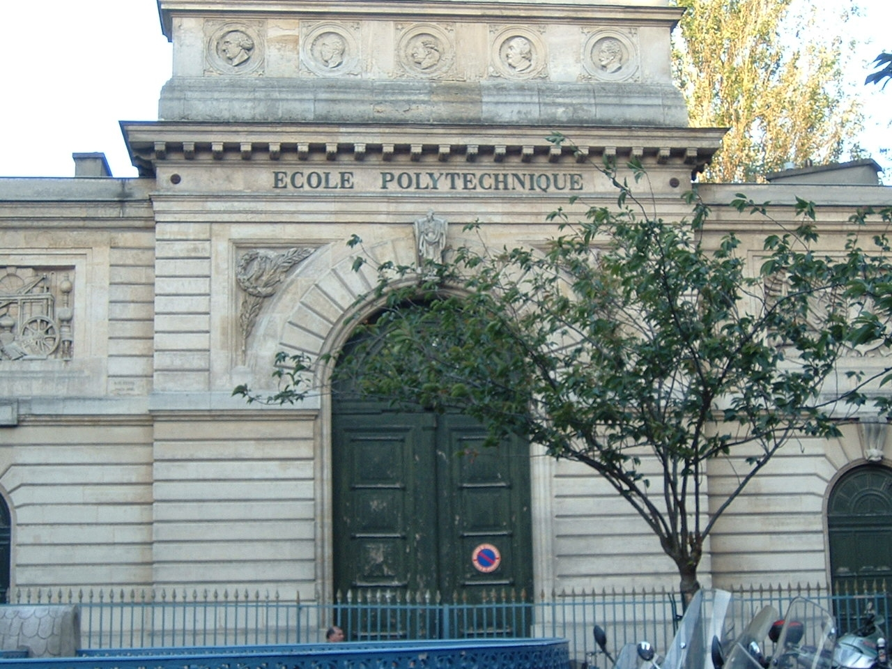 Front door of the former headquarter of École Polytechnique, at the Sainte-Geneviève hill, in Paris.